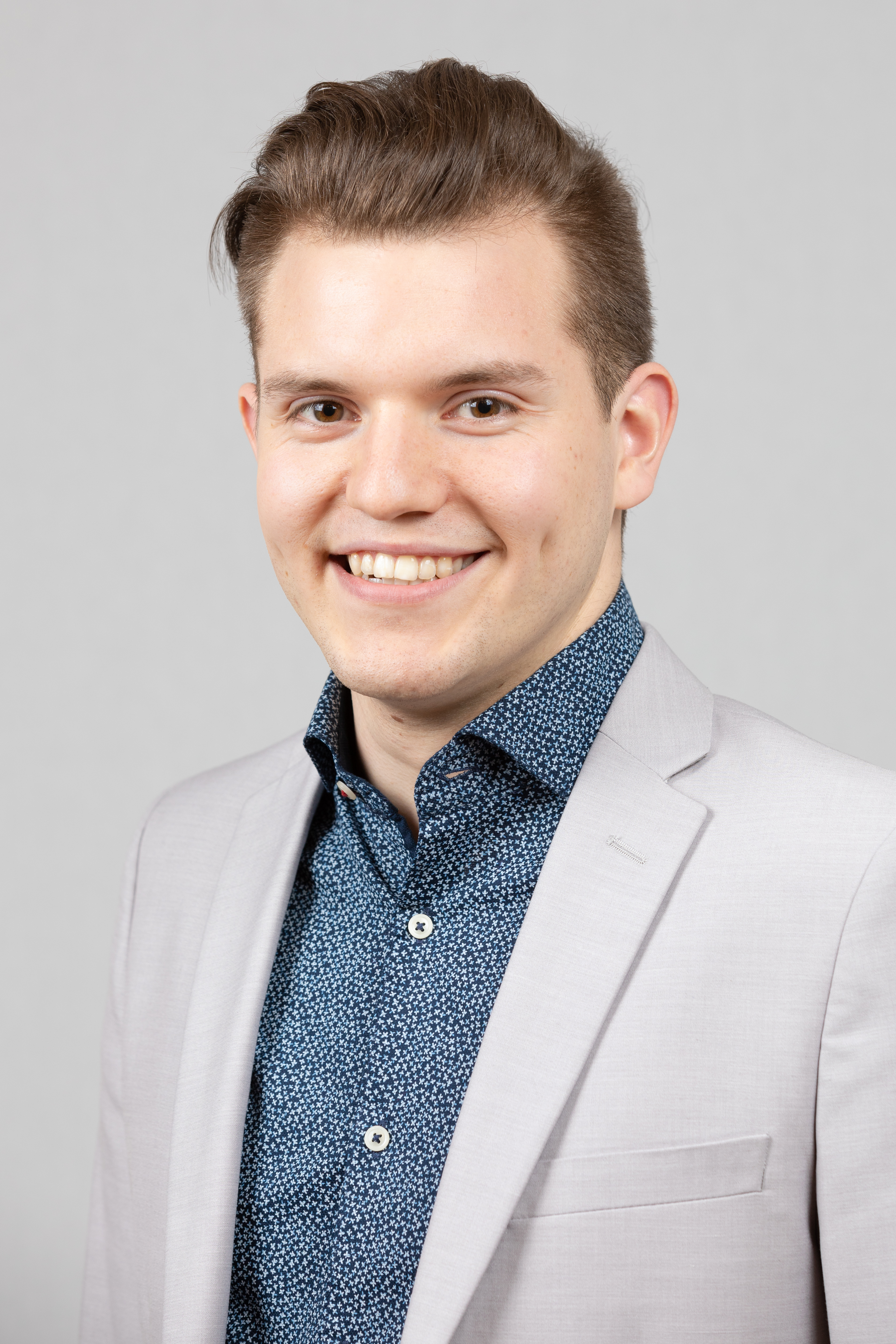 Felix Martin, Landtag of Hesse, Wiesbaden, April 3rd, 2019